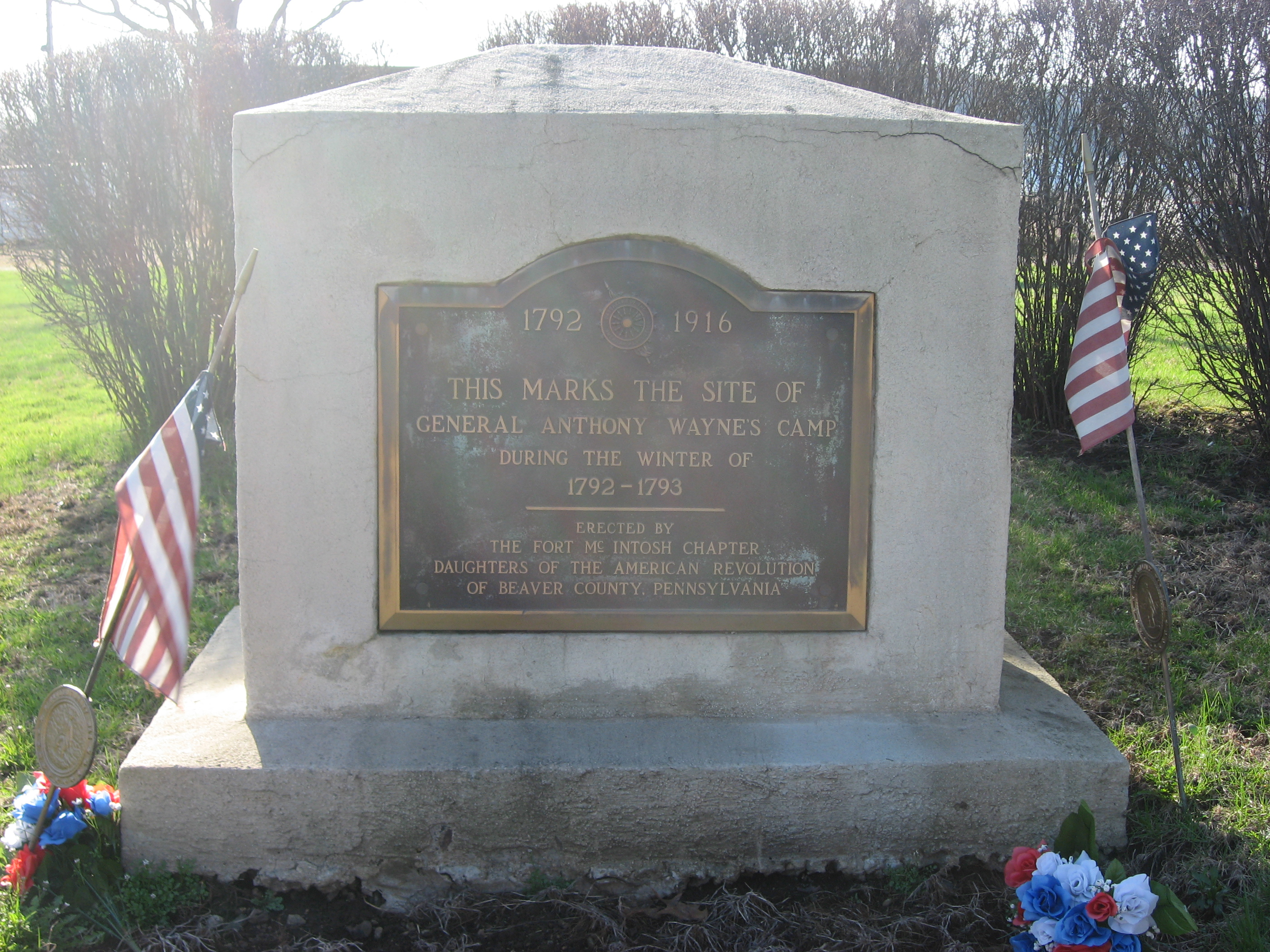 Monument at the southern end of the site of Legionville, the first active training site for the United States Army under Anthony Wayne. Located along Duss Avenue in Harmony Township, Beaver County, Pennsylvania, United States, the site is listed on the National Register of Historic Places.